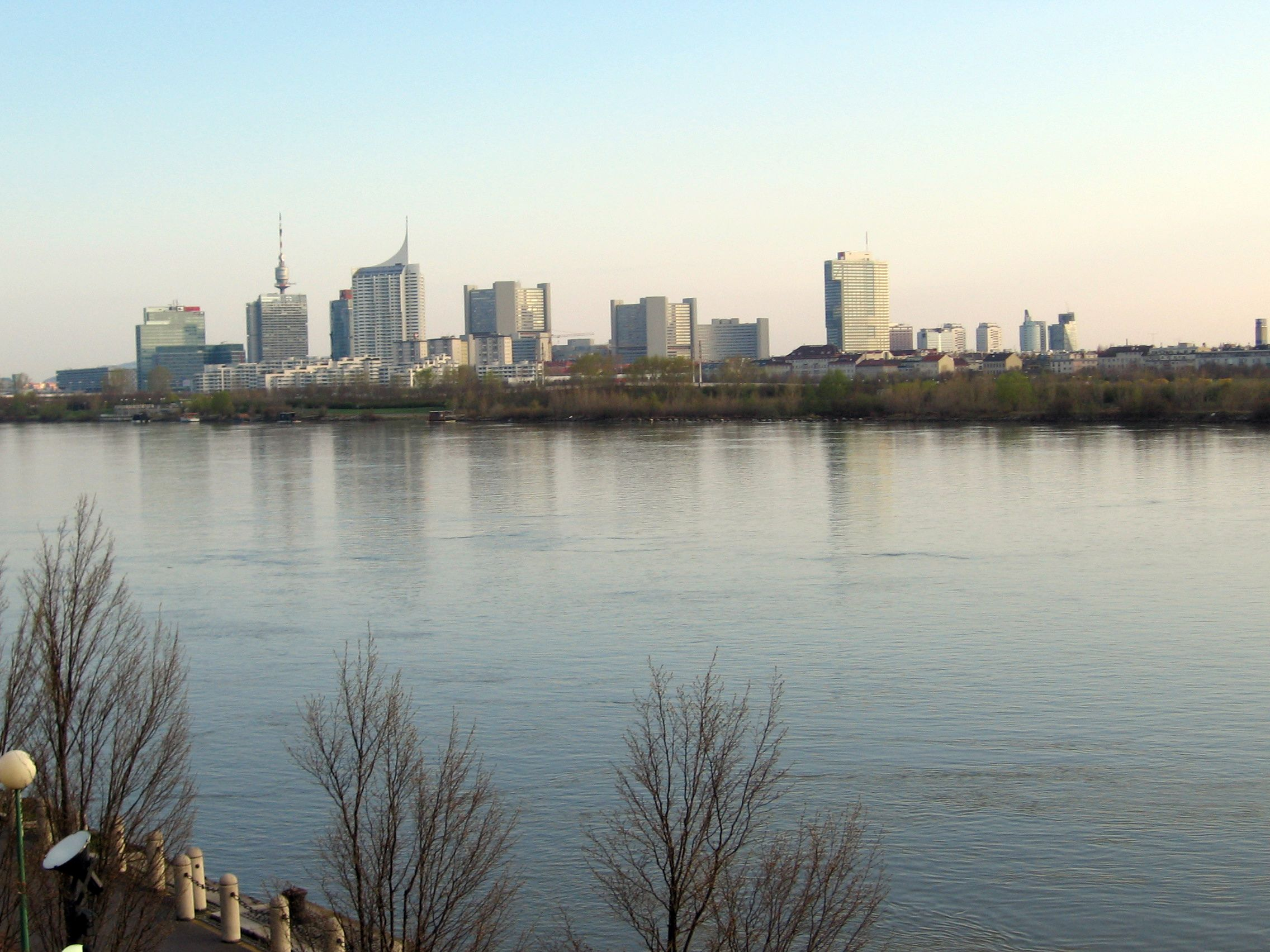 Austria, Vienna, Vienna International Centre